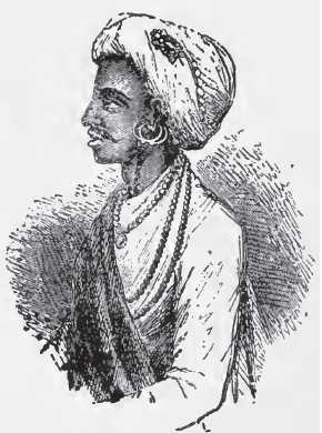 Raghunath Rao